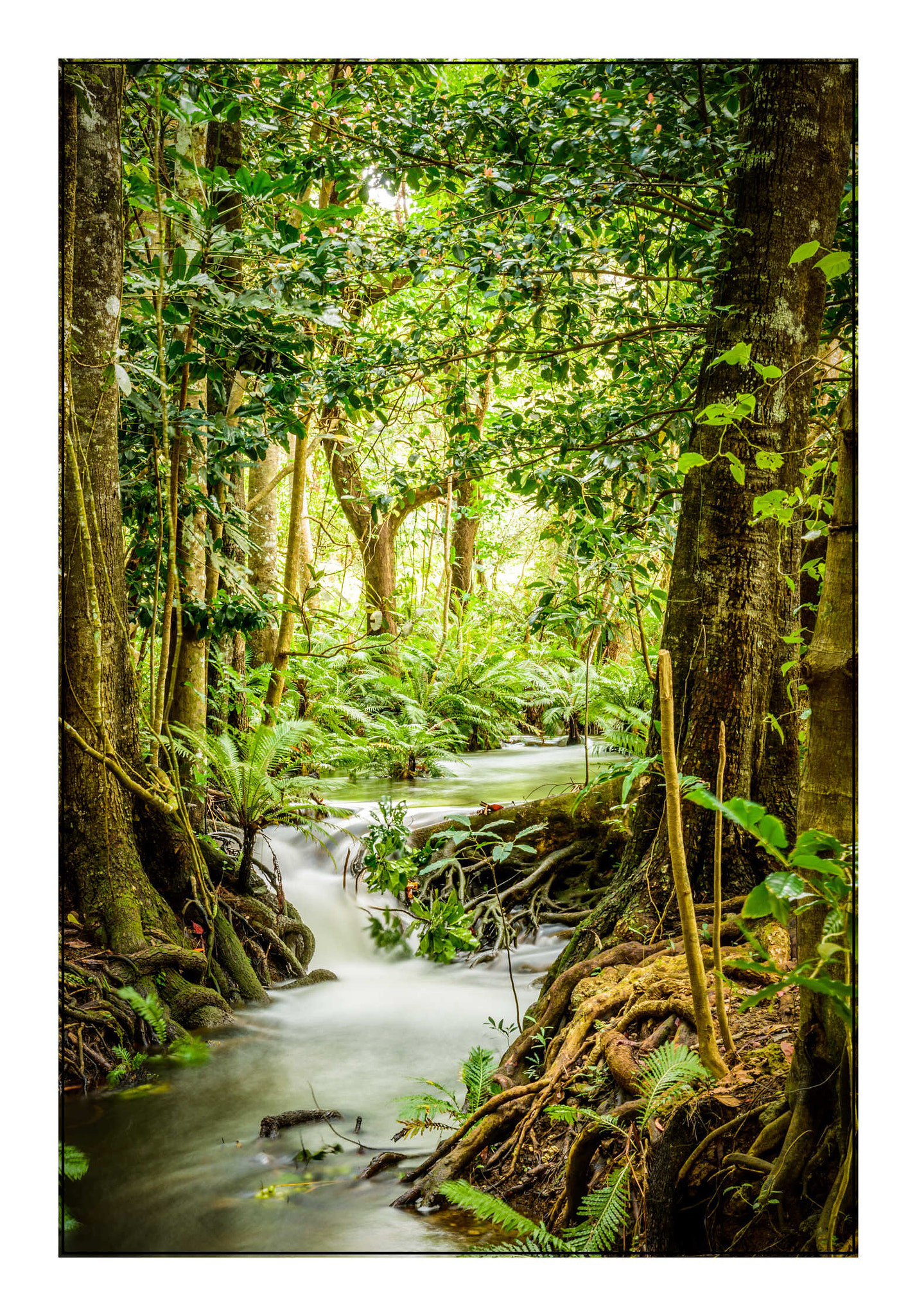 500px provided description: New Caledonia forest - Long exposure [#forest ,#nature ,#exposure]